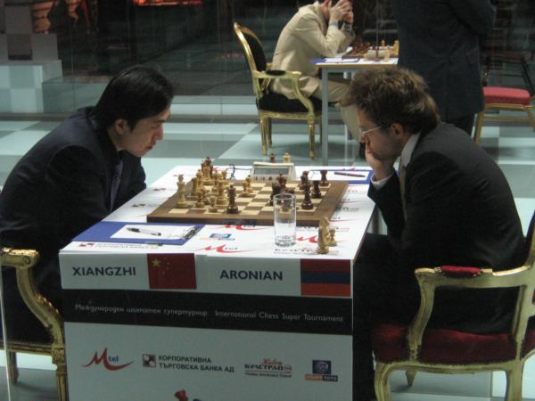 Bu Xiangzhi (left) v Levon Aronian (right) - chess match, Mtel 2008